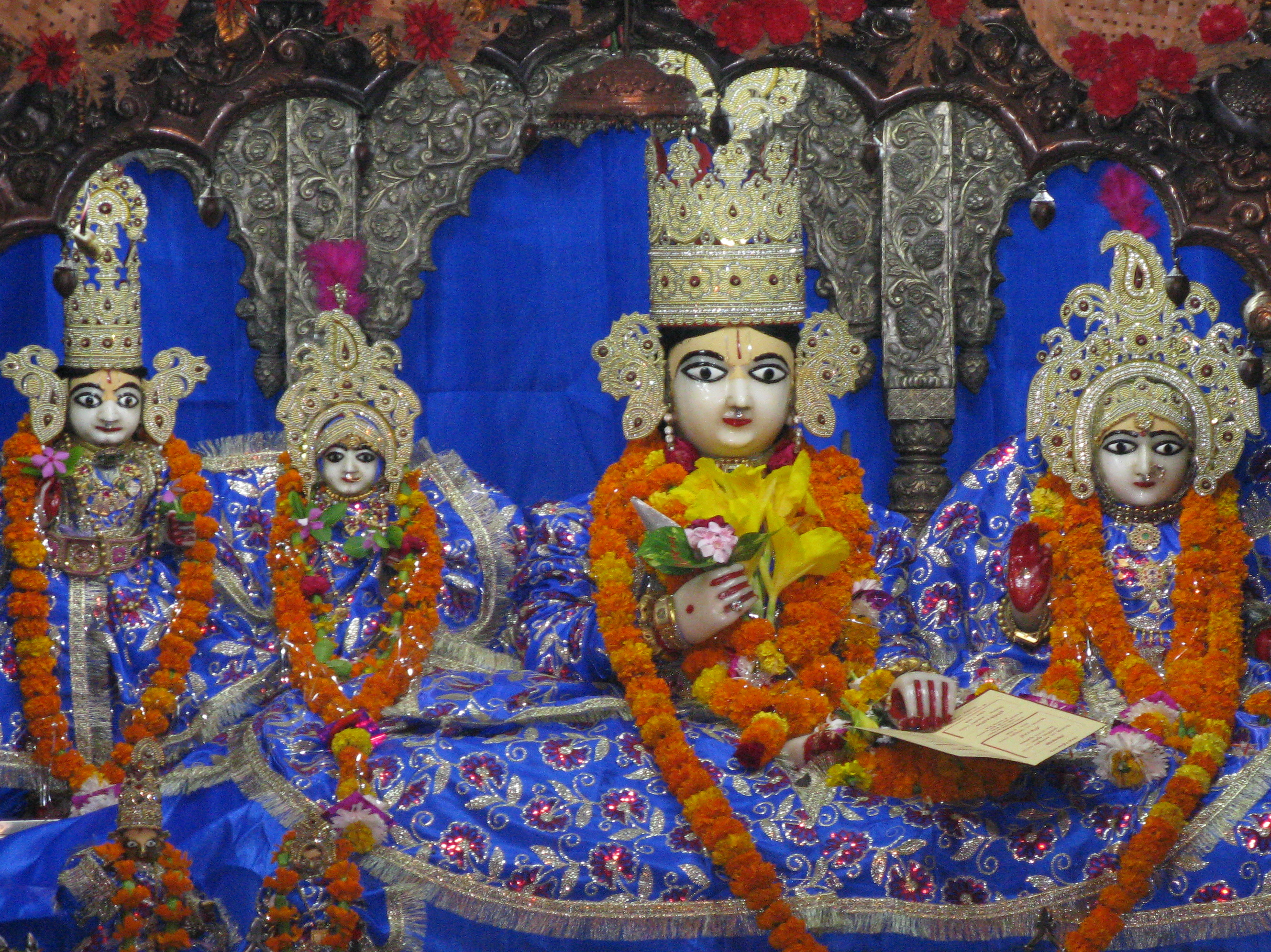 The temple is situated in the centre of Ayodhya and is visited by a number of travellers. Kanak Bhavan is devoted to Prabhu Shri Ram and Sita Mata.